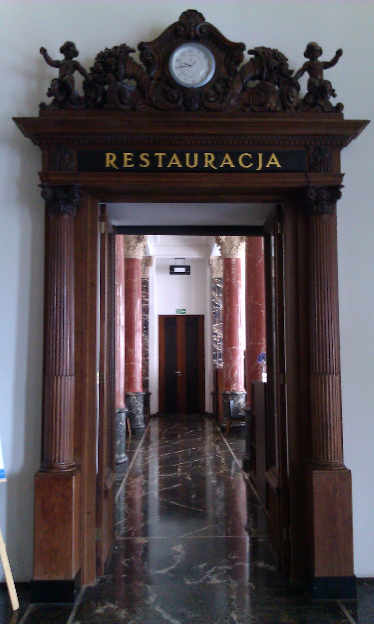 Wrocław Monopol Hotel Restaurant